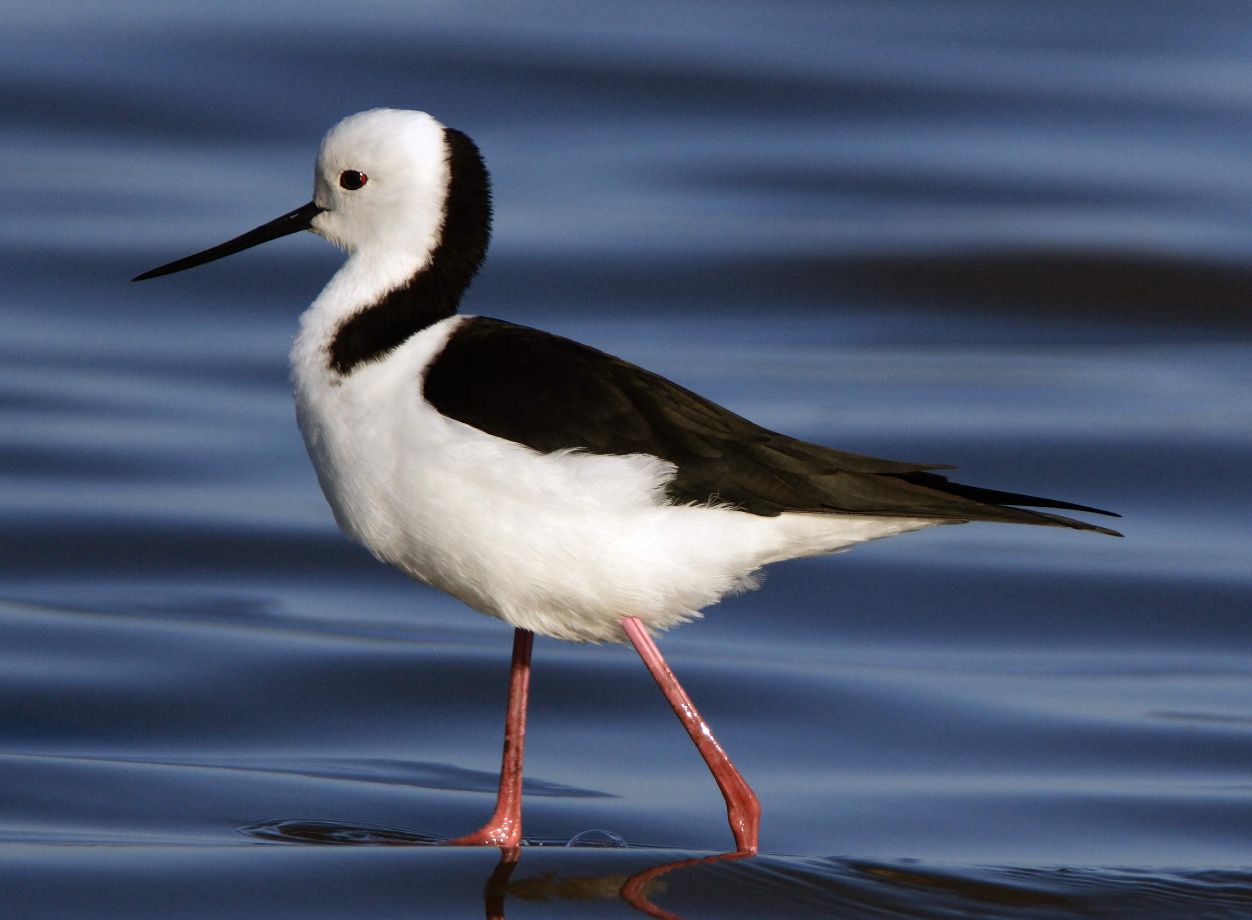 White-headed Stilt (Himantopus leucocephalus), Werribee, Victoria